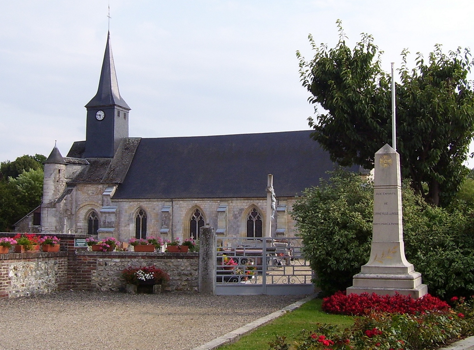 Abbeychurch Notre-Dame in Corneville-sur-Risle, departement Eure, Normandie, France. It was built in the 12th century. And the war memorial of the town.